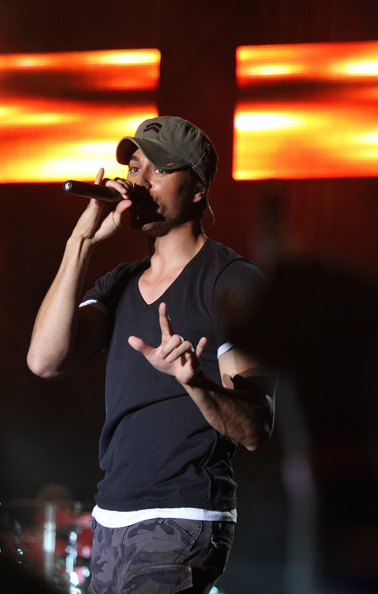 Enrique Iglesias in concert